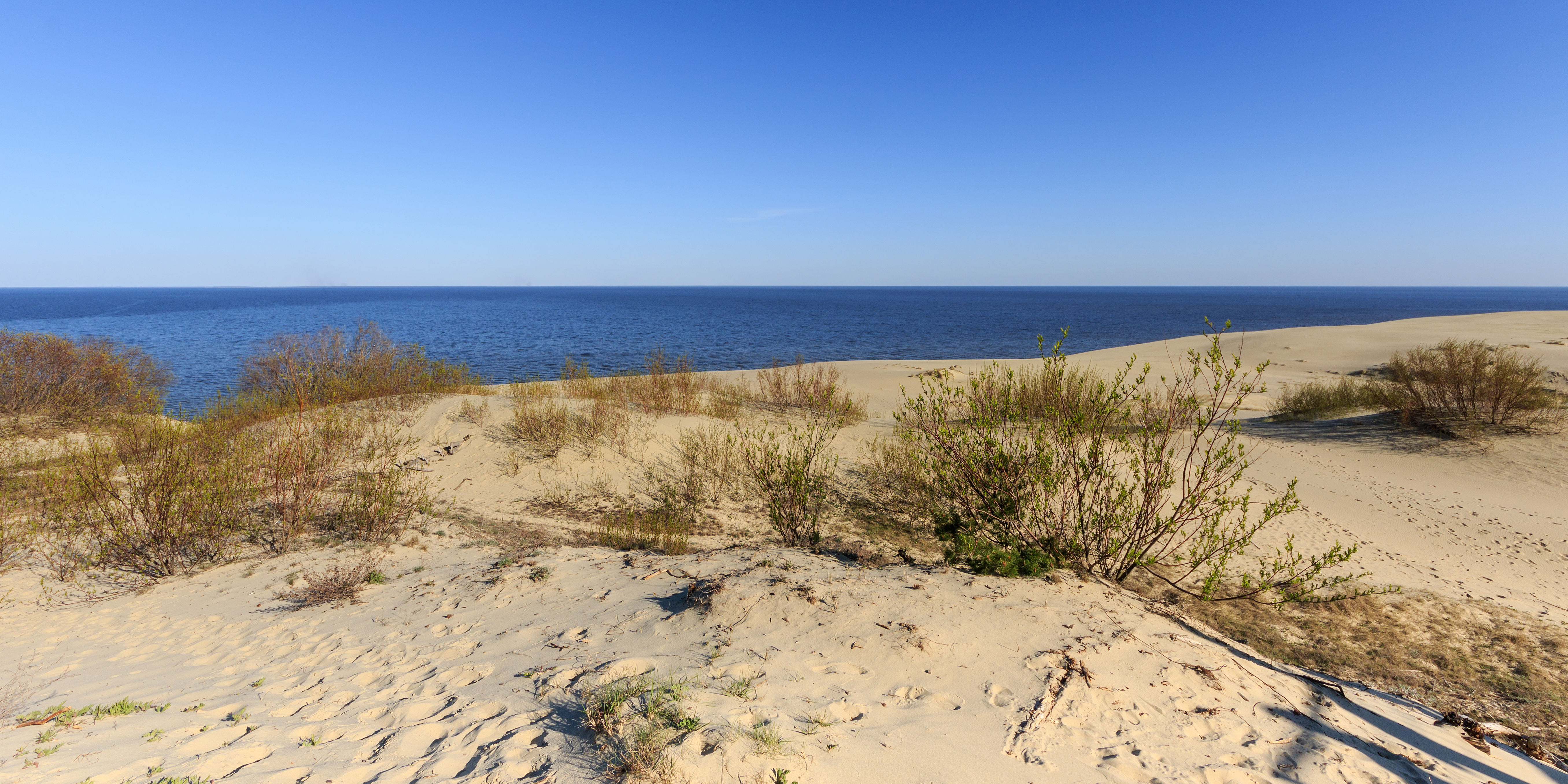 Curonian Spit in Kaliningrad Oblast (Russia). Epha Dune.